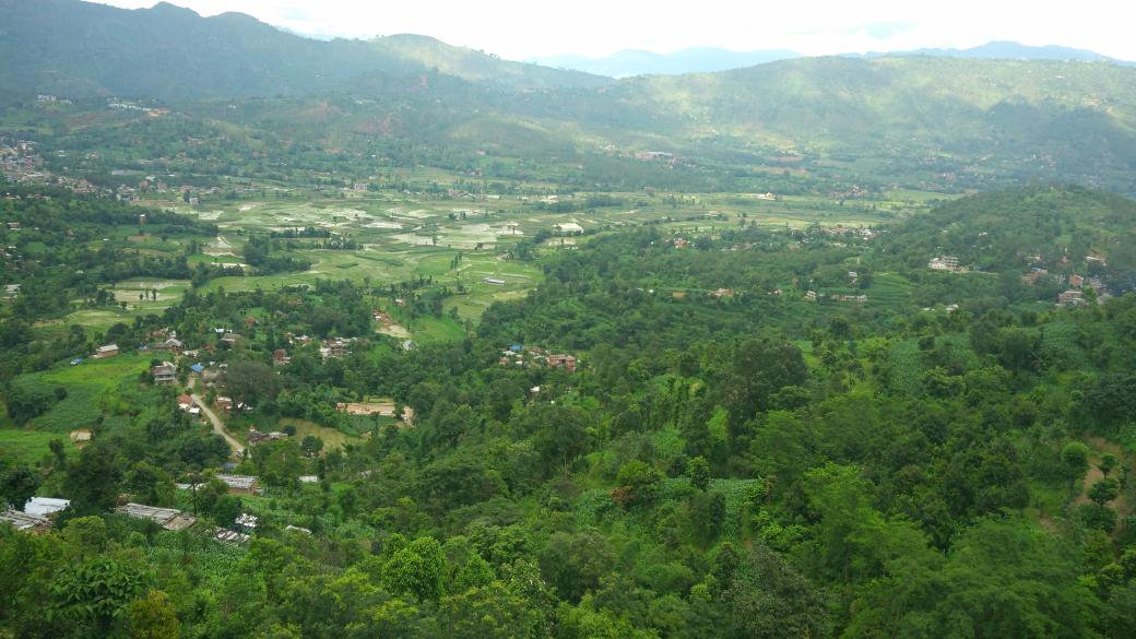 Fertile Panchkhal Valley